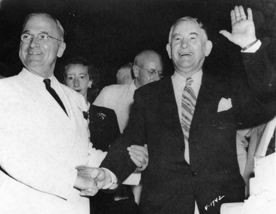 President Harry S. Truman (left) and Alben Barkley (right) smile for the photographer in front of unidentified onlookers. They are onstage at the 1948 Democratic National Convention in Philadelphia, Pennsylvania. Donor: Montgomery Foto Service.